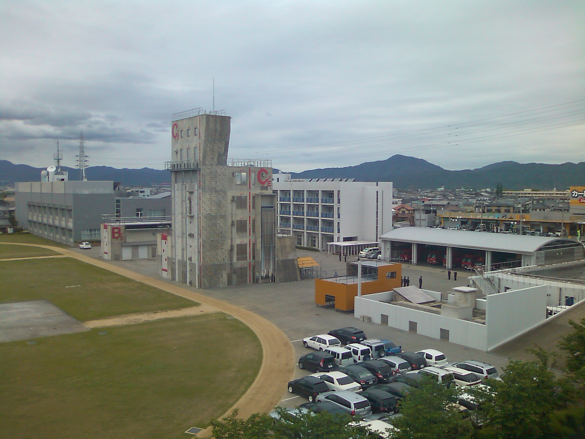 Tokushima Prefectural Fire Academy, Japan